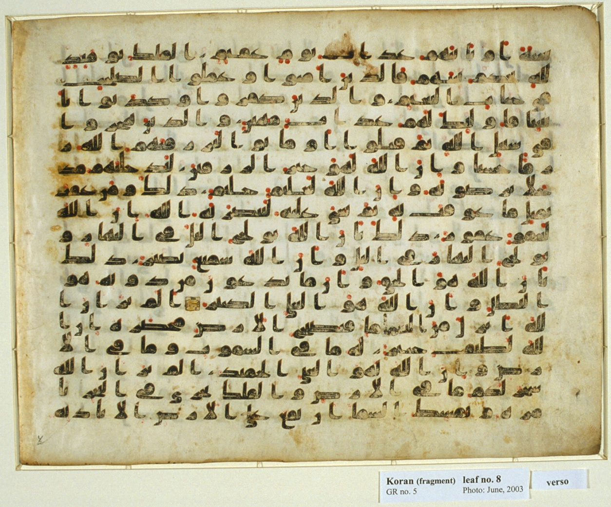 Verses 55-74 of the 22nd chapter of the Qur'an entitled Surat al-Hajj (The Pilgrimage). The text is executed in Kufi script close to the E style typical of horizontal Qur'ans produced on parchment during the 9th-10th centuries.